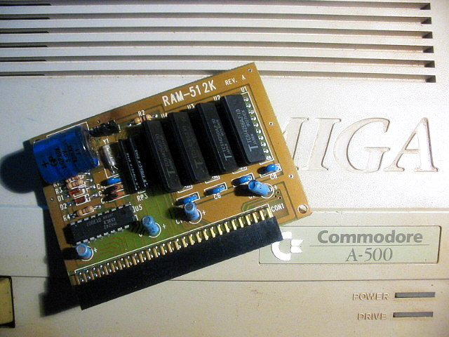 RAM 512K for Amiga 500